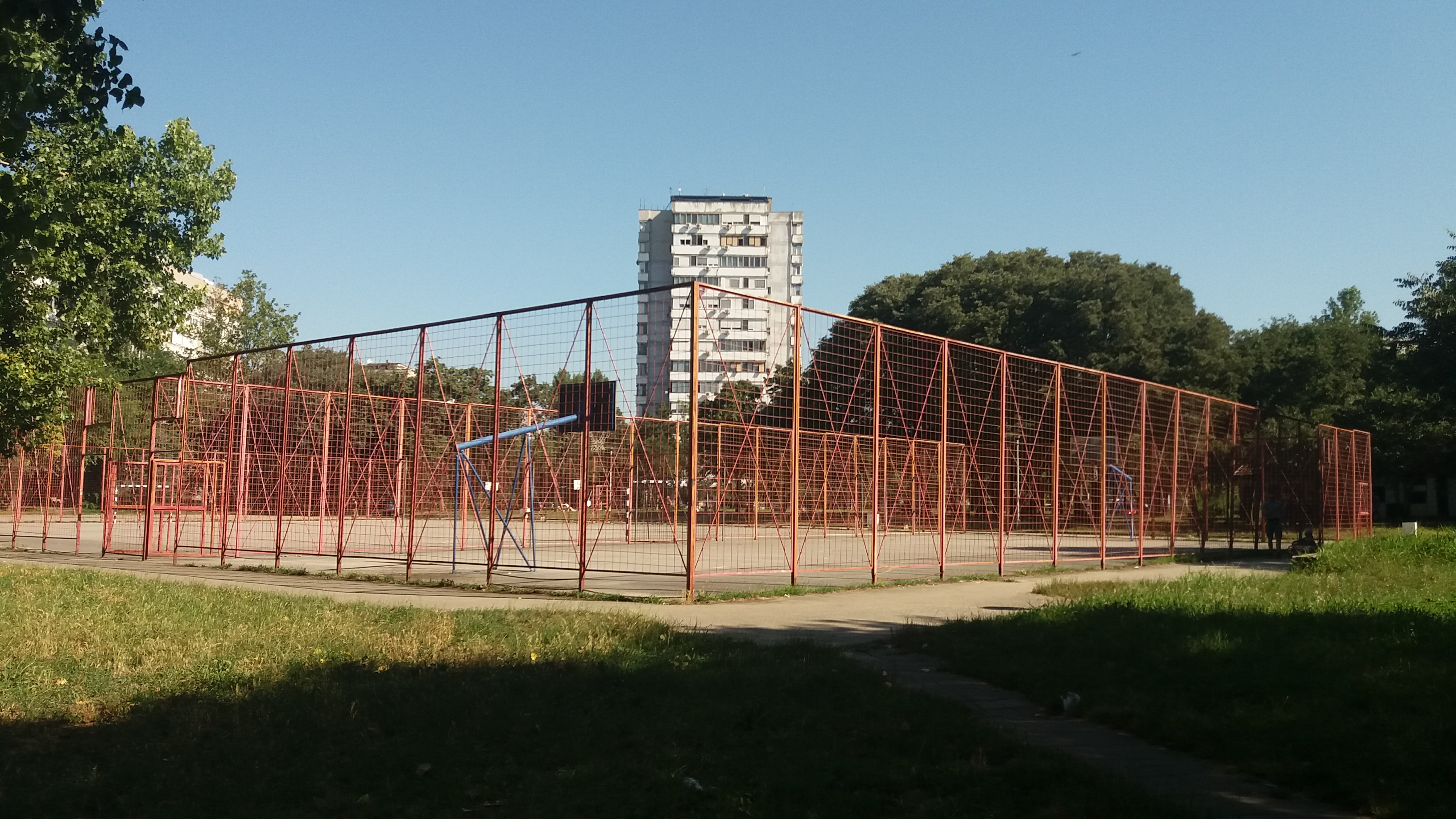 Block 2, New Belgrade, basketball courts